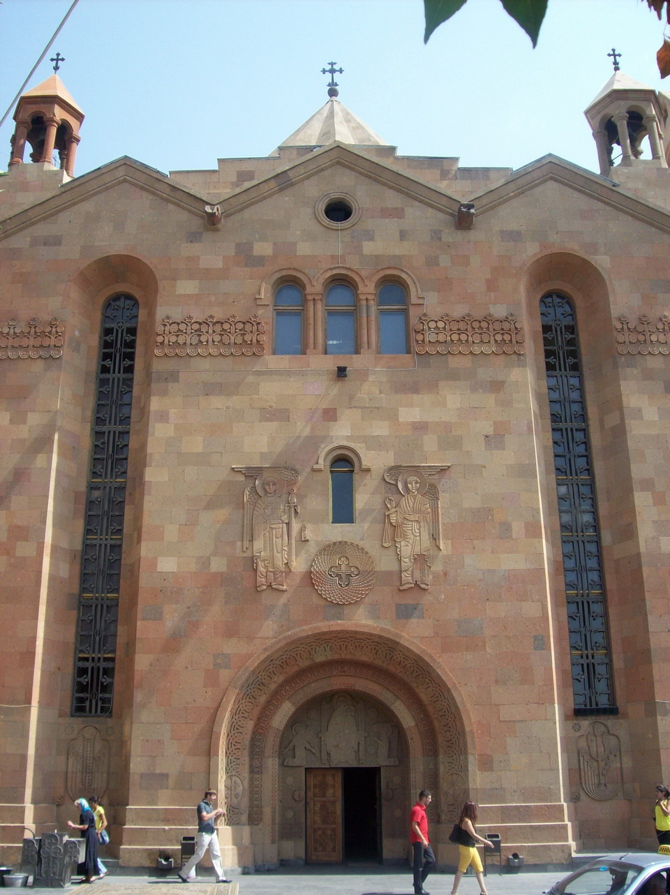 St. Sarkis Cathedral, Yerevan, Armenia.